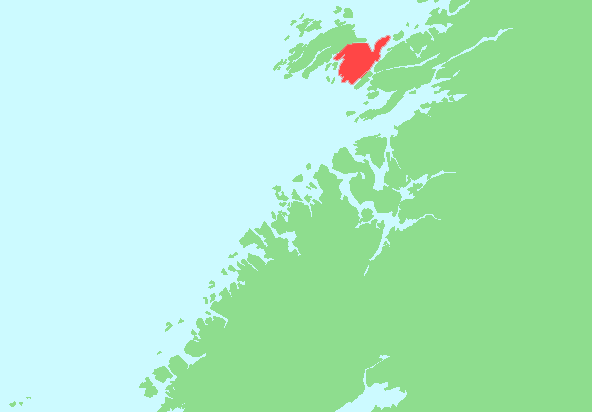 Locator map of Inner-Vikna, Nord-Trøndelag, Norway